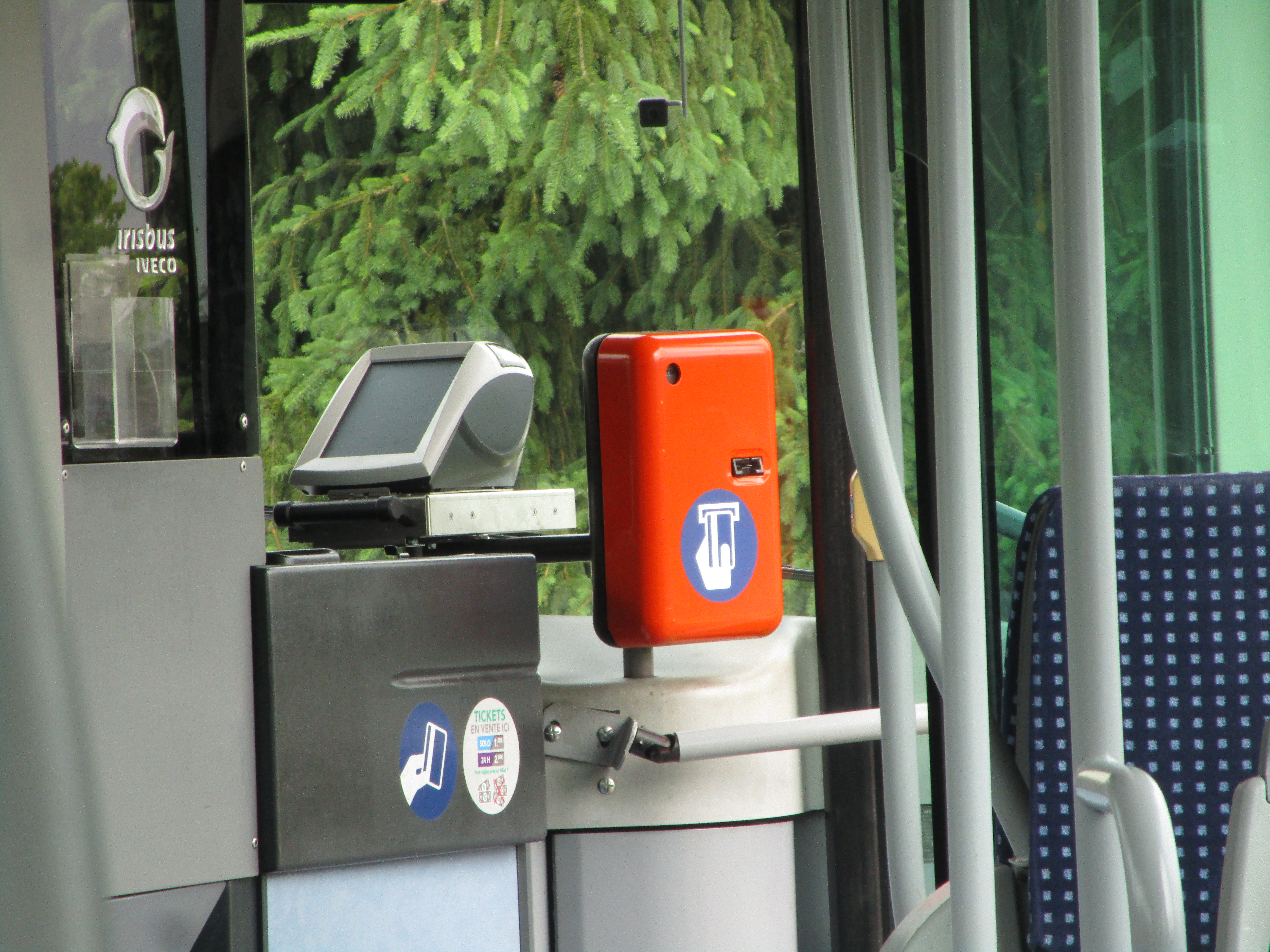 A punching machine onboard of the bus Irisbus Citelis 12 n°2023 of the STAC.